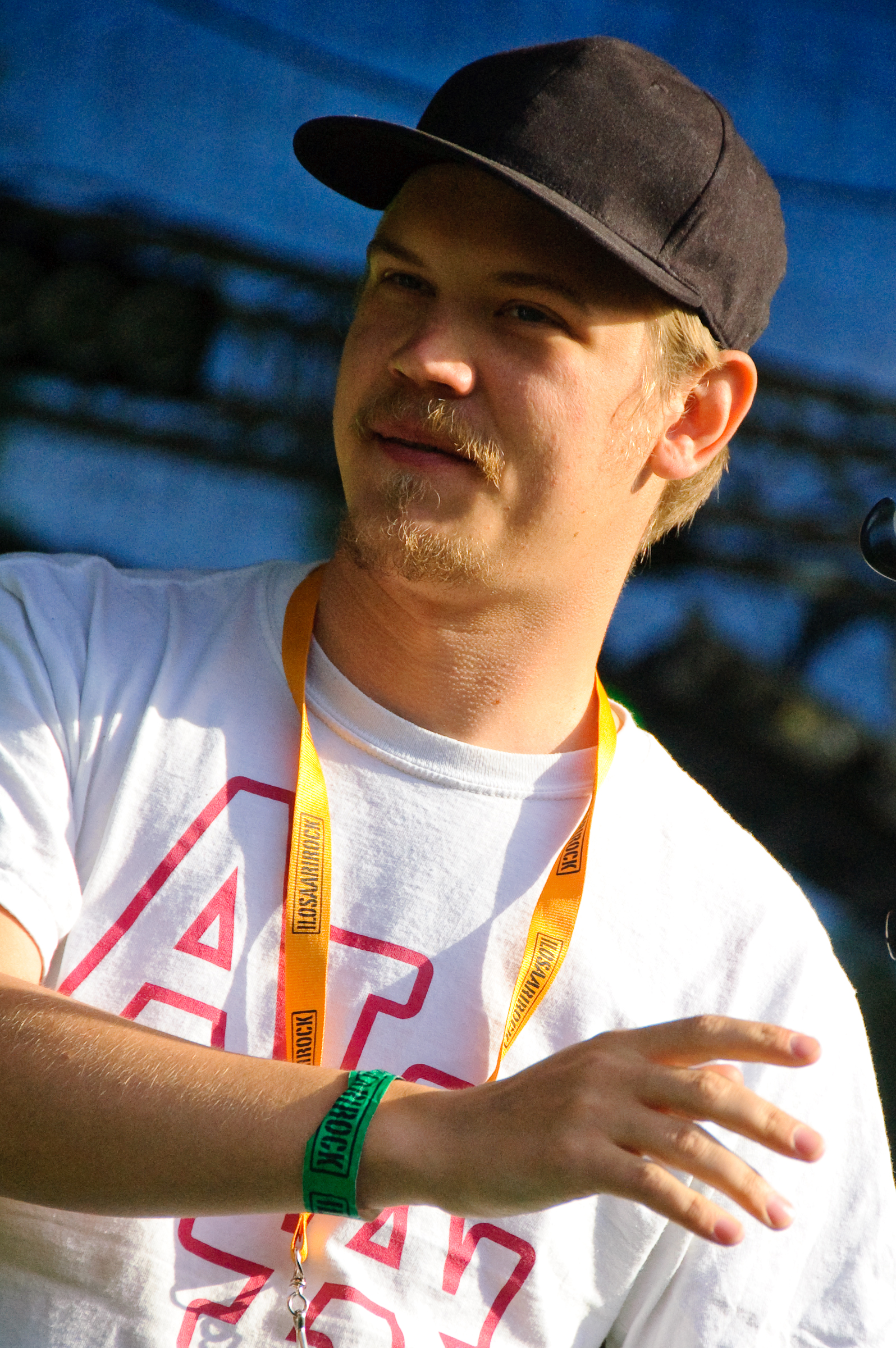 Finnish rapper Jodarok performing at the Ilosaarirock festival in Joensuu, Finland.